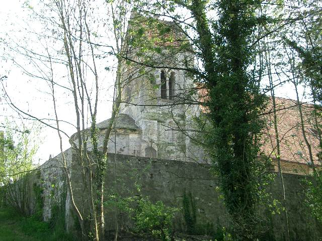 Church Saint-Martin of Breny, Aisne departement, France. XIIth century. North side view.